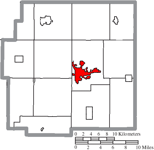 Map of the municipal and township boundaries of Wyandot County, Ohio, United States, as of the 2000 census, with the location of the city of Upper Sandusky highlighted. Township borders are shown only in unincorporated areas in order to differentiate incorporated and unincorporated areas more clearly.